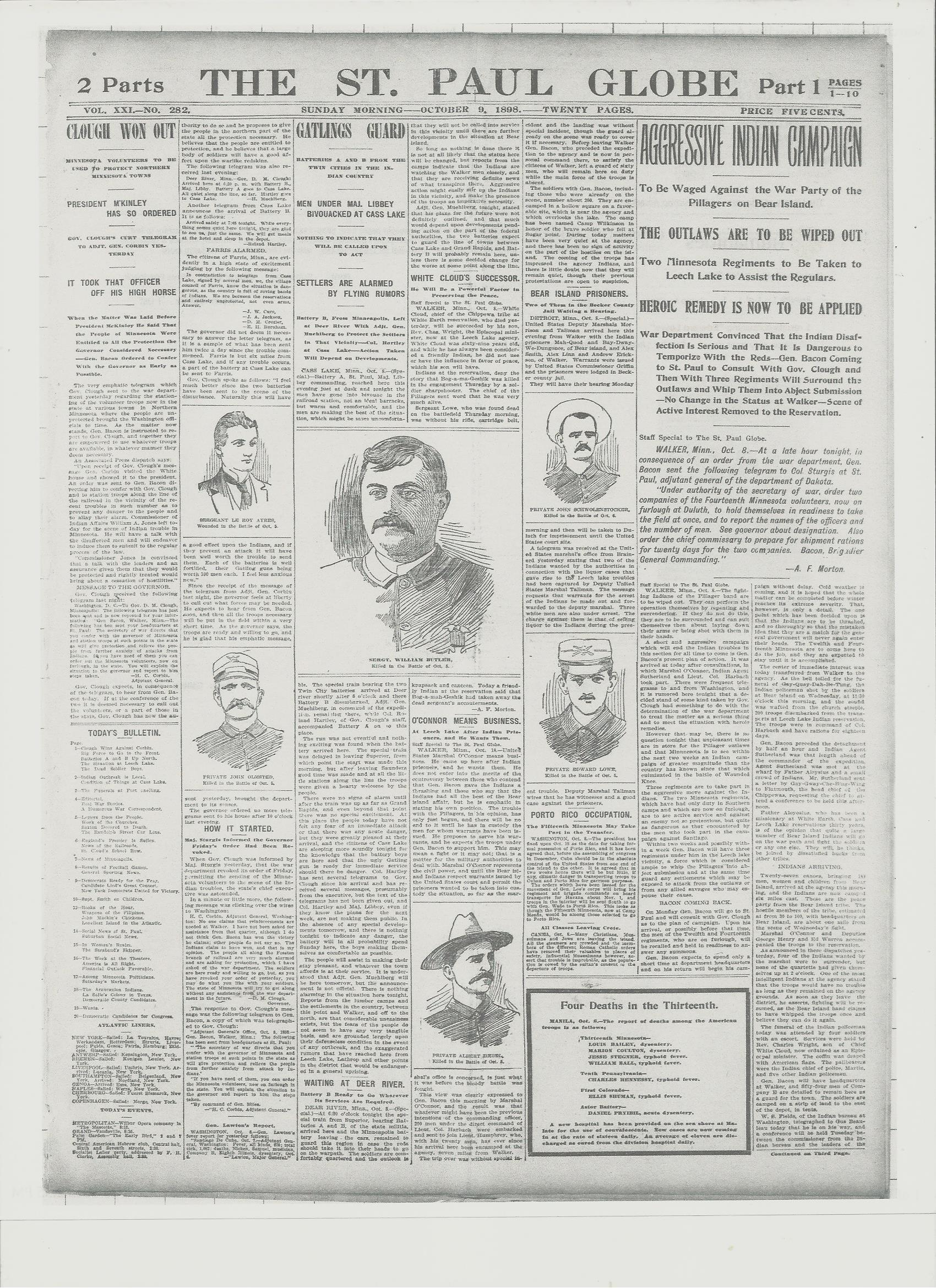 Front Page of the Minnesota newspaper "The St Paul Globe" October 9, 1898 showing pictures of US Army casualties of the Battle of Sugar Lake Minnesota